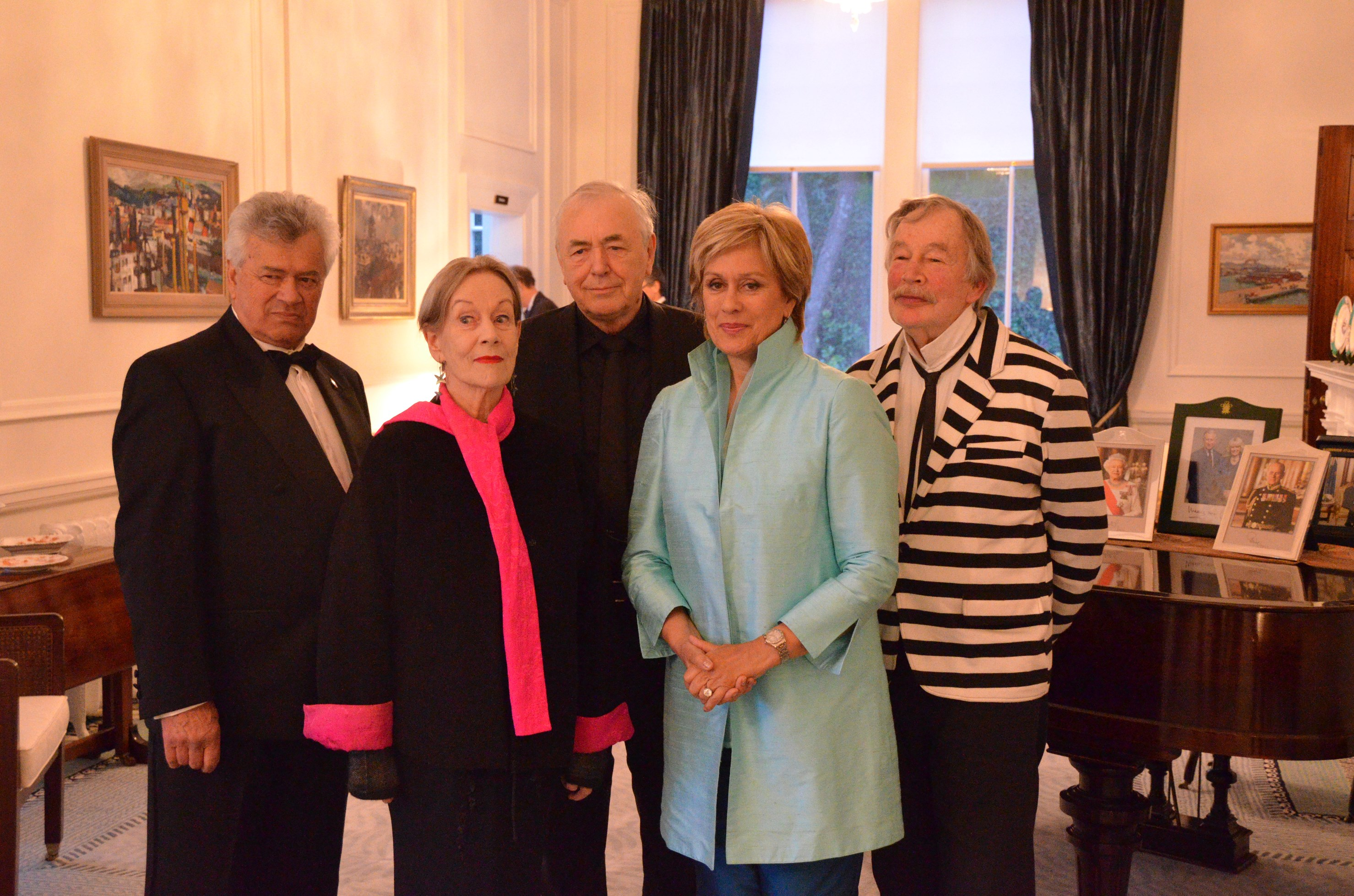 The Arts Foundation Icon Award Recipients 2013: (L-R) Artist and educator Cliff Whiting; artist and writer Jacqueline Fahey; film director Geoff Murphy; opera singer Dame Kiri Te Kanawa; and architect Ian Athfield. At Government House, Wellington, on 2 August 2013